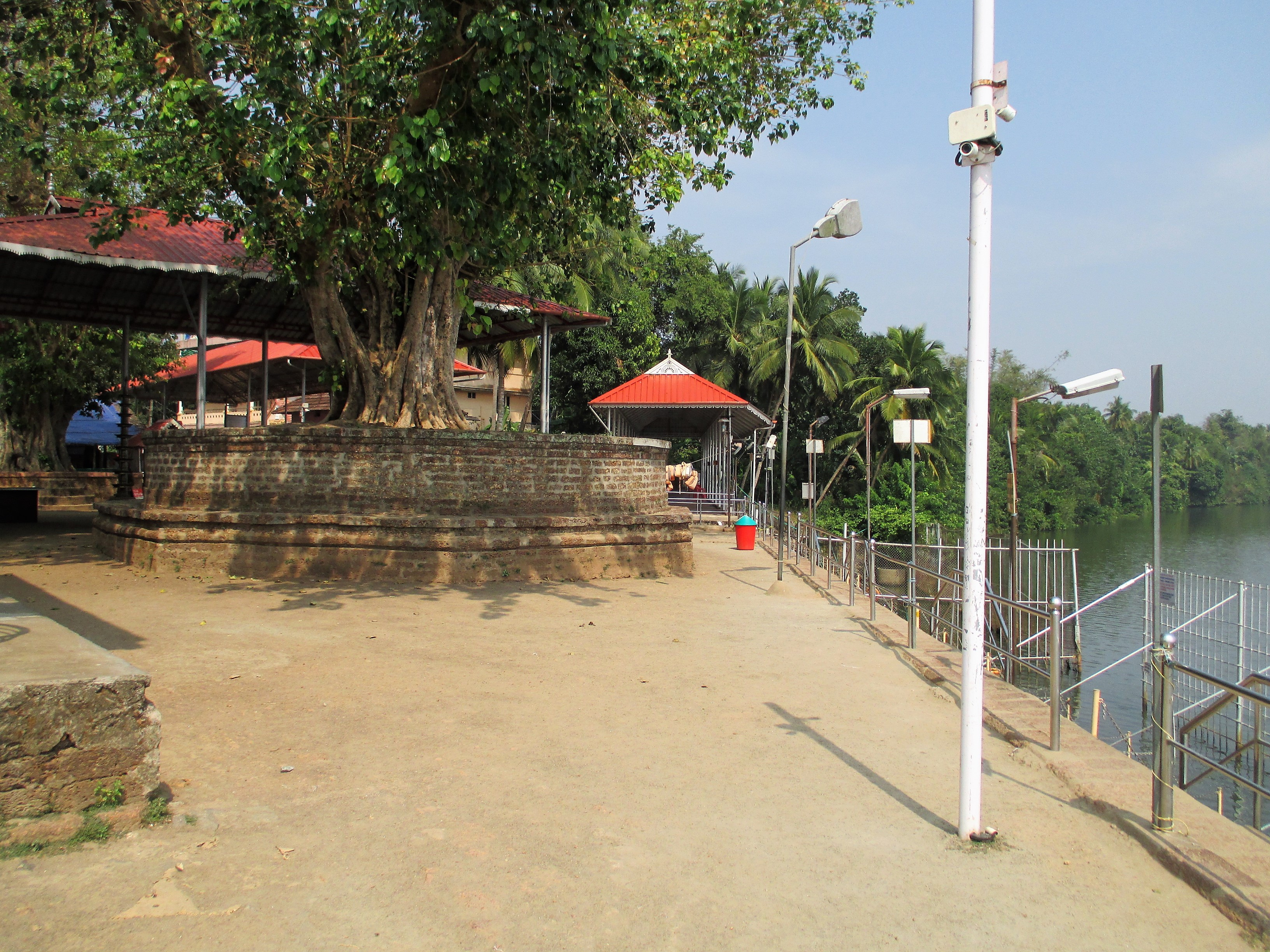 Thirunavaya temple